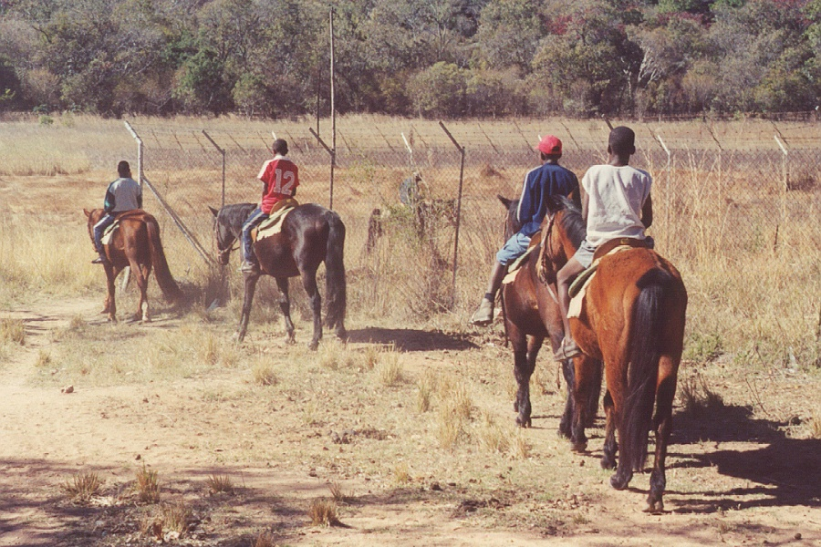 Horse trail riding, Maleme area, Matobo Hills, Zimbabwe